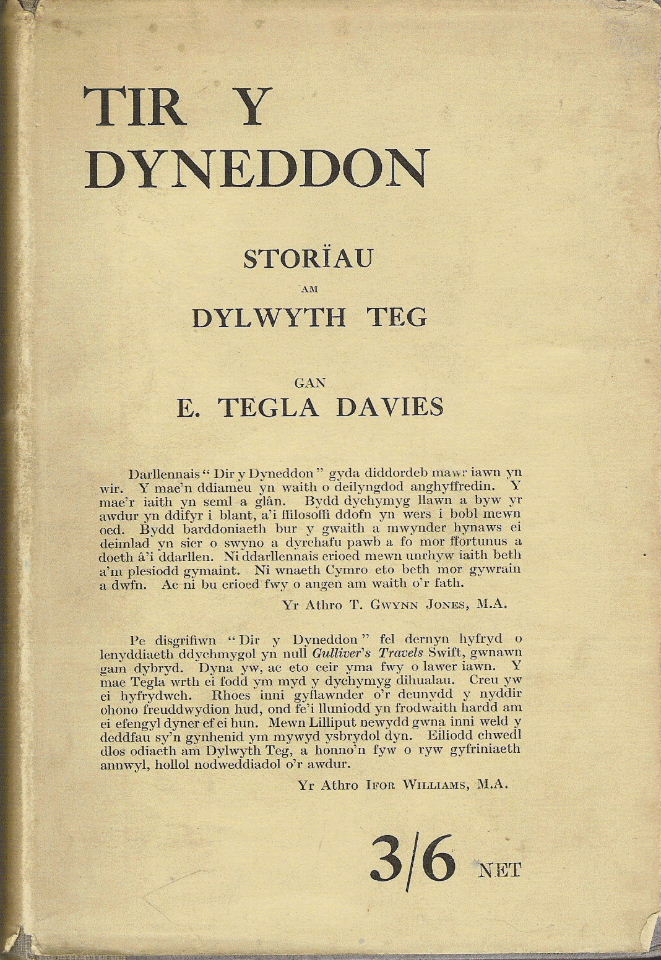 Tir y Dyneddon, a collection of Welsh-language stories for older children by E. Tegla Davies (Wrexham and Cardiff, 1921)